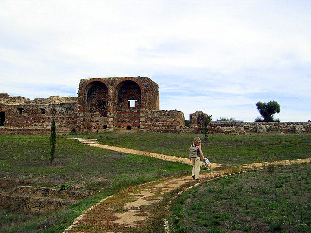 The Roman Ruins of Villa Áulica and Convent of São Cucufate is an archaeological site near Vidigueira, Portugal. The monastery, built in the Middle Ages on the ruins of a Roman villa or farmhouse, was dedicated to Saint Cucuphas.